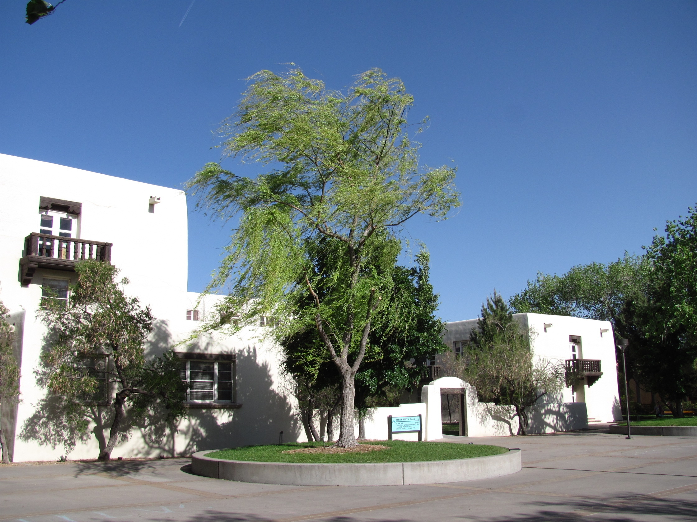 Salix Babylonica, UNM Arboretum, Albuquerque New Mexico - labeled as "Salis Babylonica"